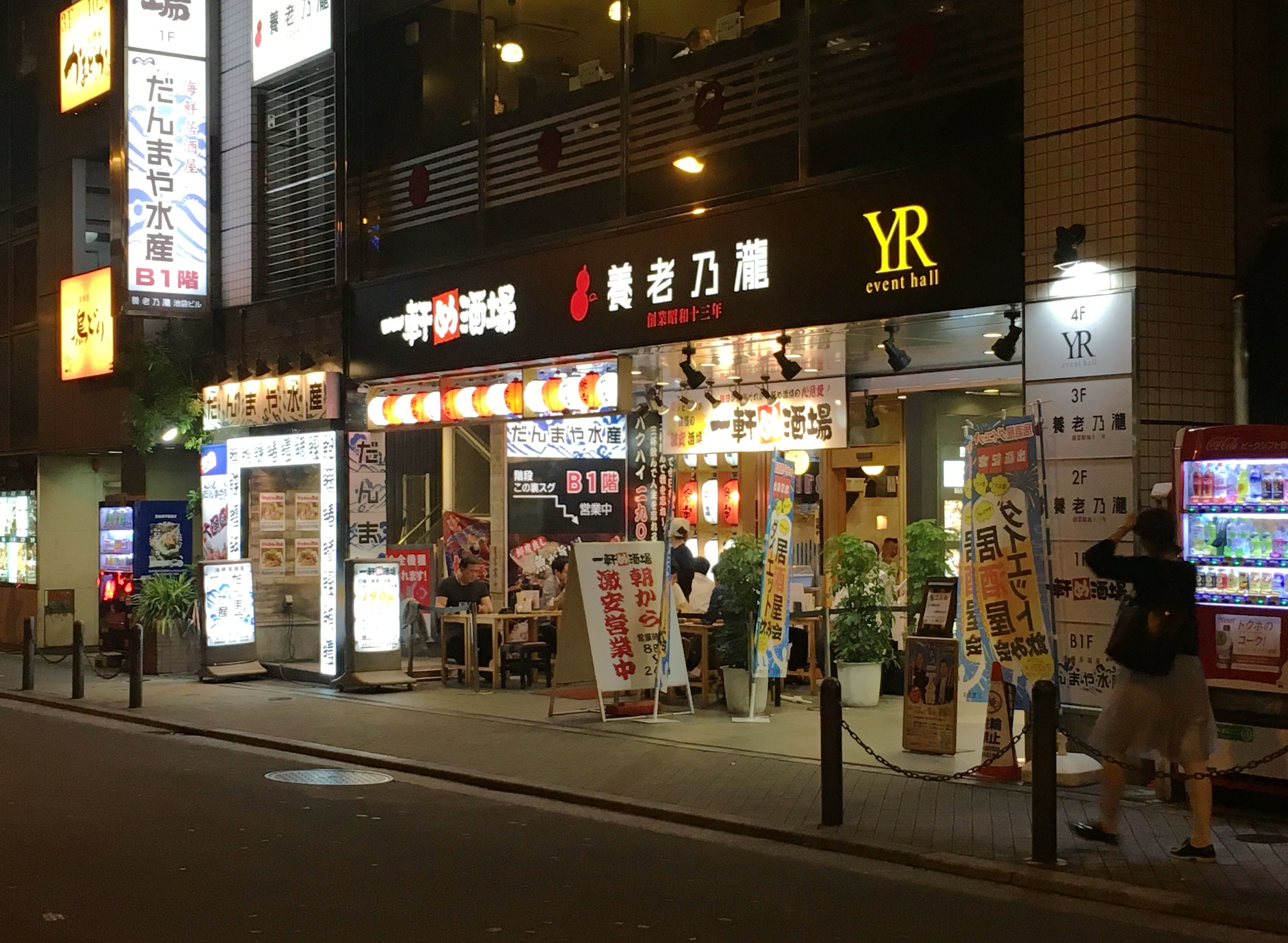 Yoronotaki (Japanese bar chain)